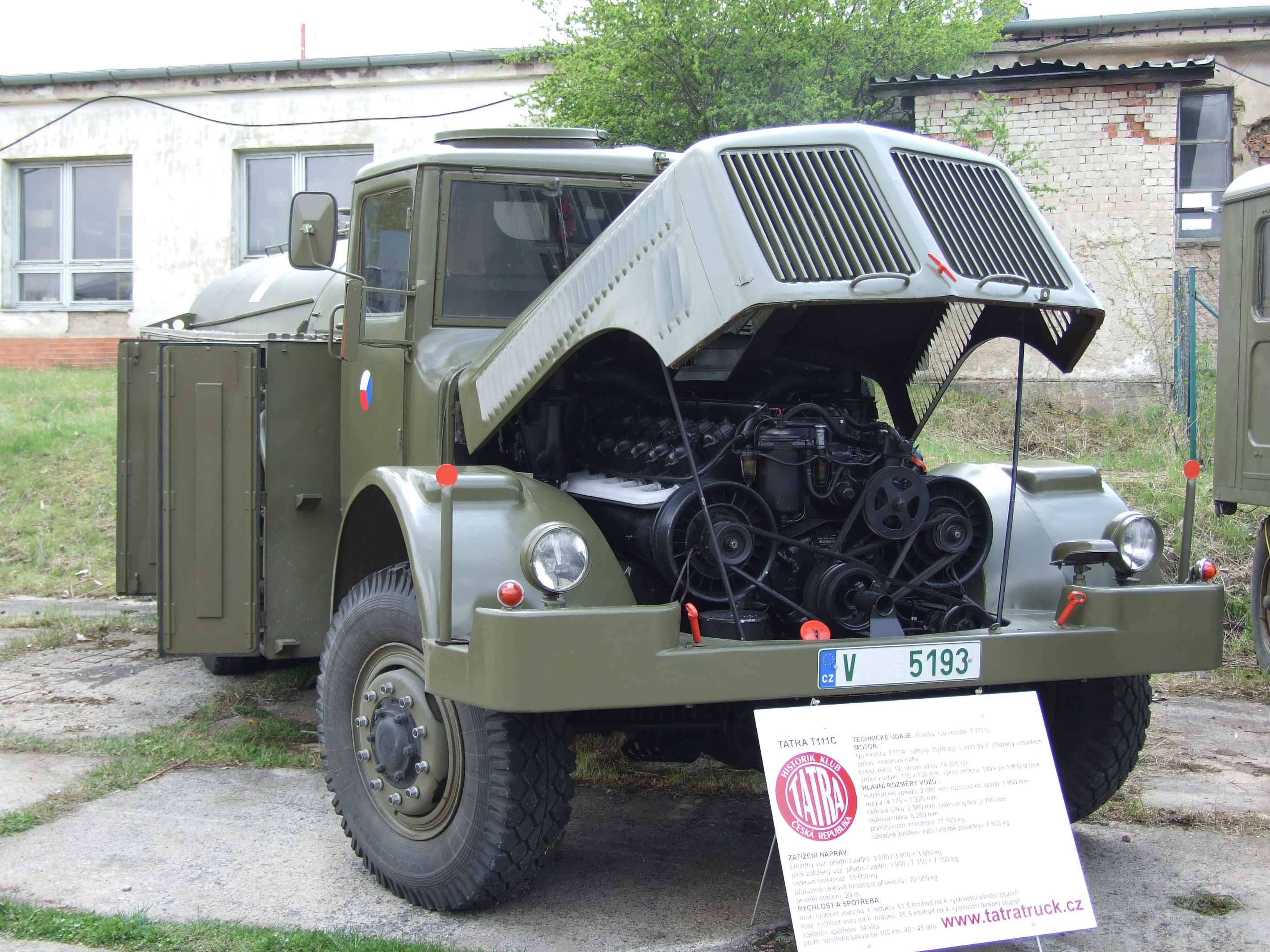 Czechoslovak historic truck Tatra T 111 C